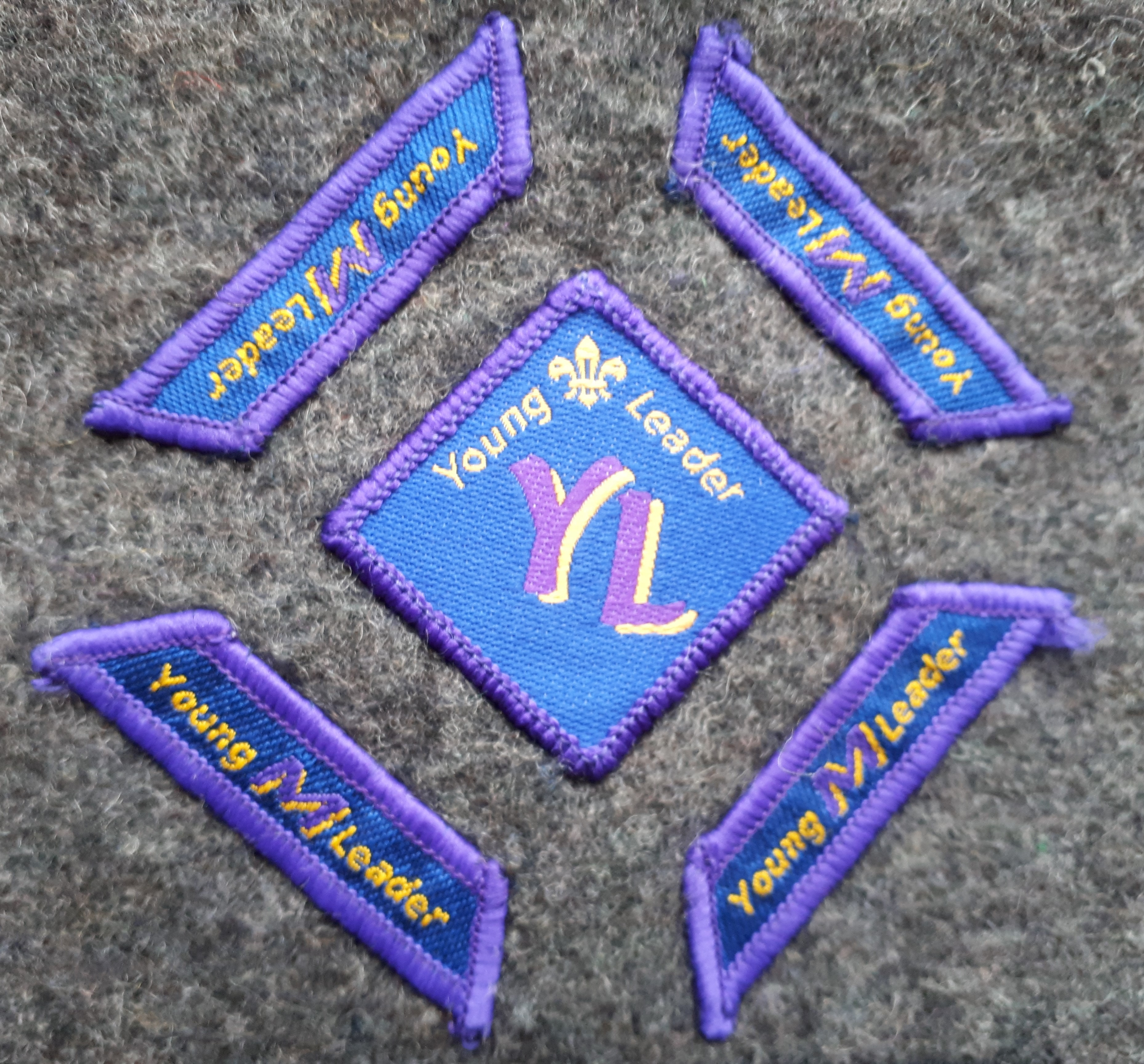 A diamond Young Leader award badge from the United Kingdom's Scout Association Explorer Scouts Young Leader scheme in a design used between 2002 and 2015. The four smaller badges around the edge are patches awarded when a Young Leader completed one of the four challenges, called missions, in the scheme.